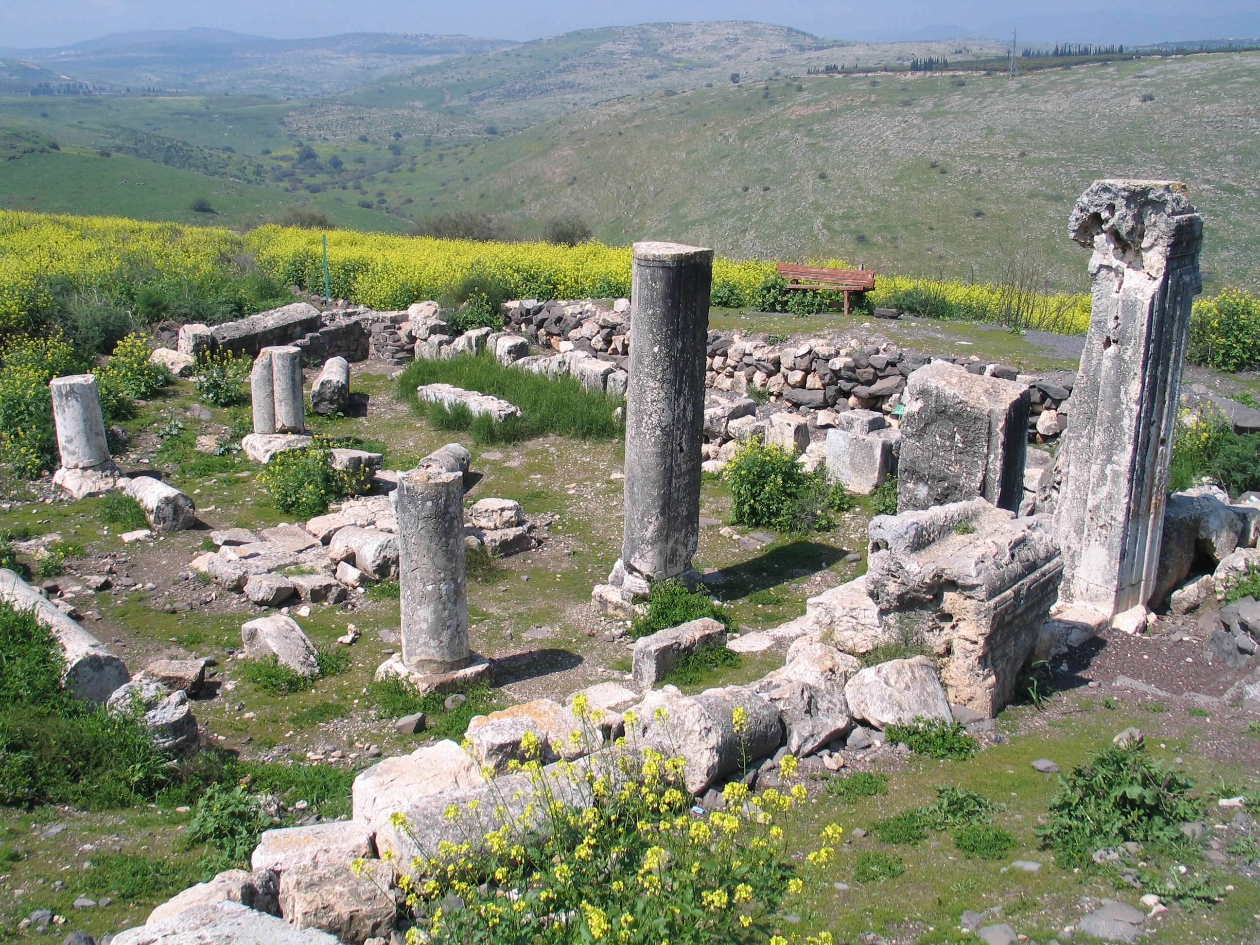 Ancient synagogue at Arbel, Israel.